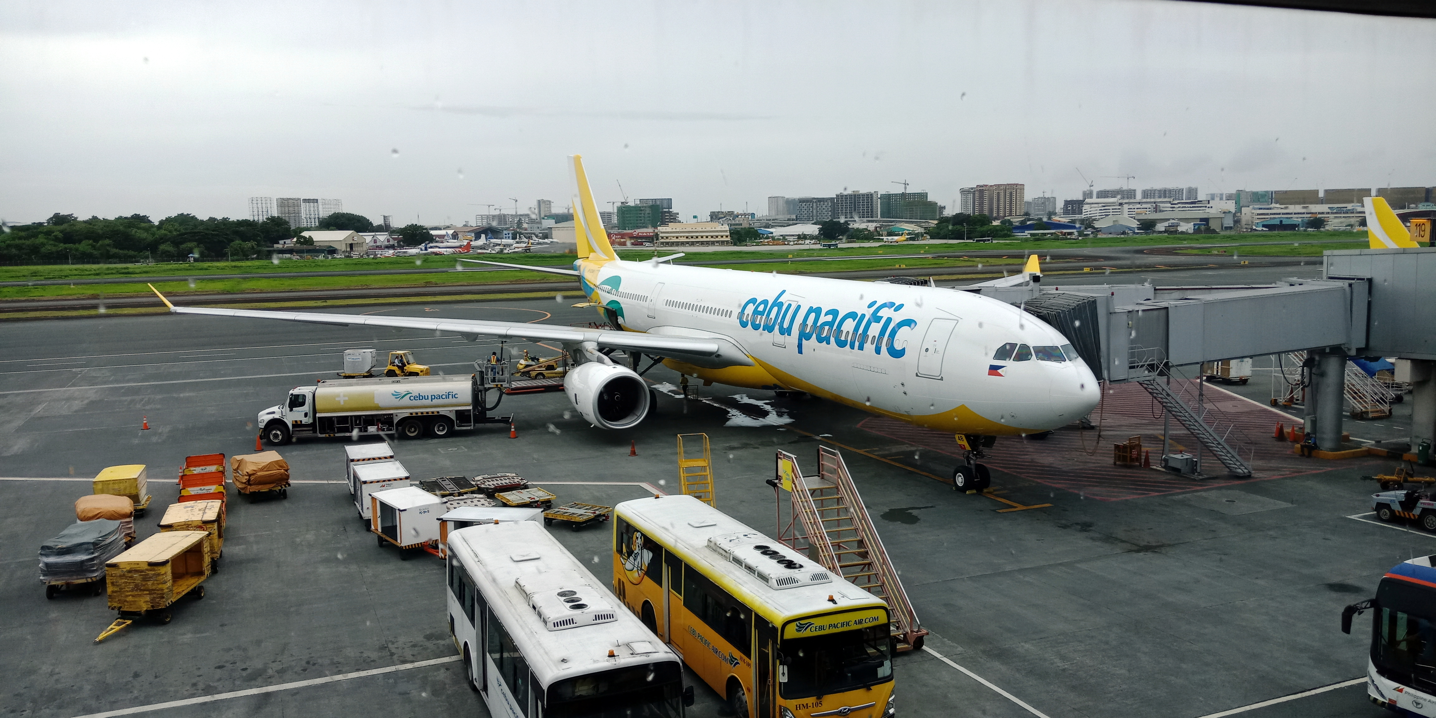 A Cebu Pacific aircraft at the tarmac of the Ninoy Aquino International Airport (NAIA) Terminal 3.